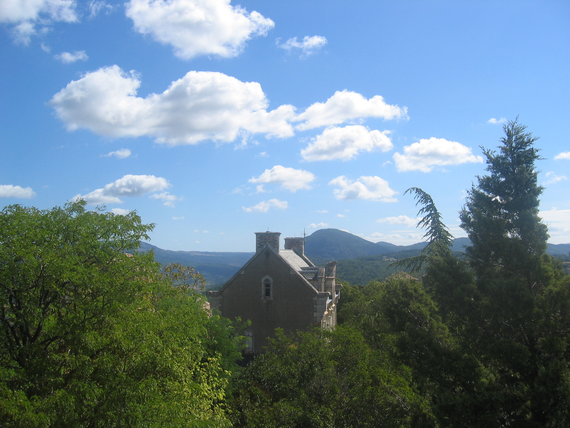 Villa Bethania